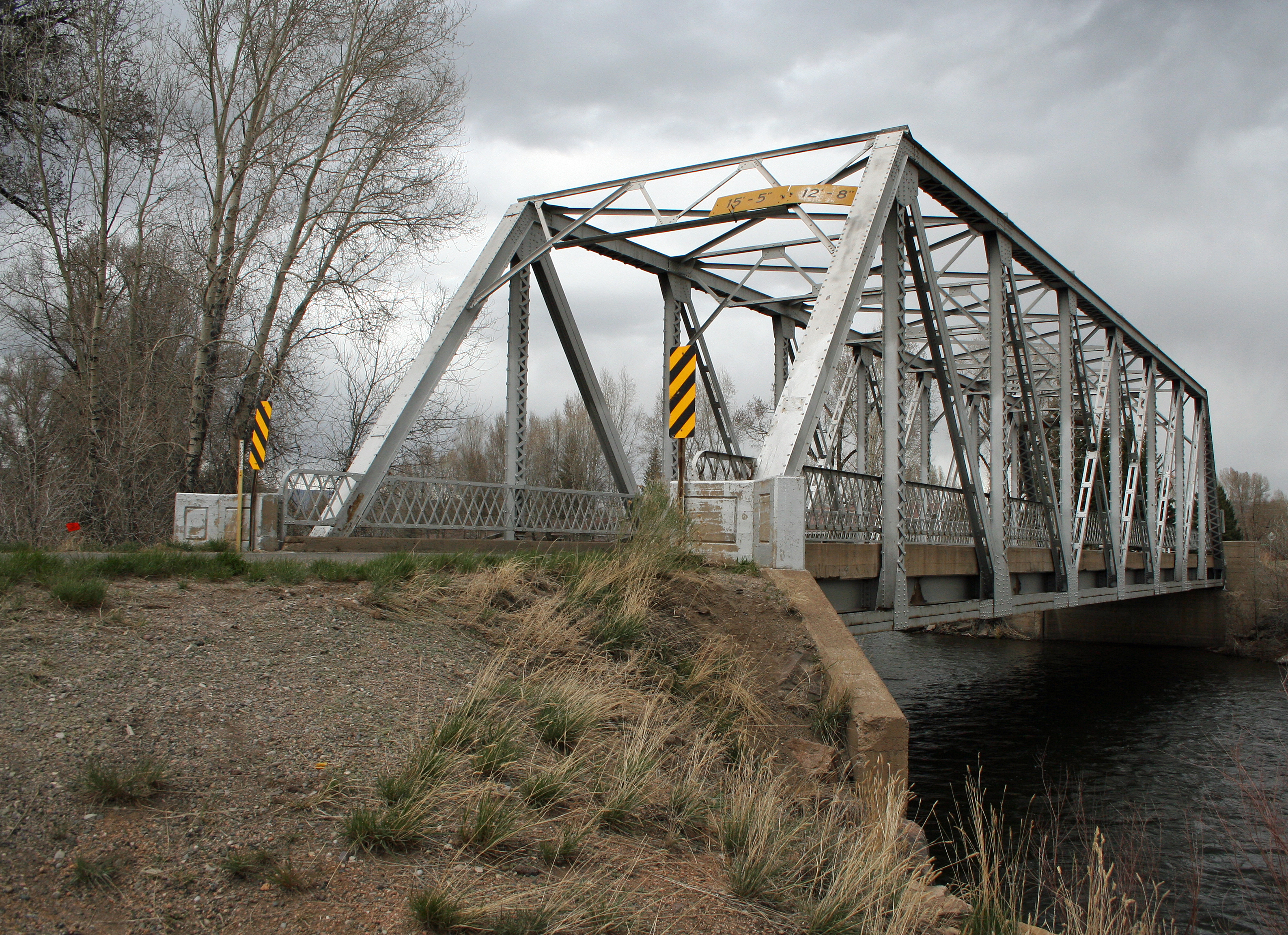 The Gunnison River Bridge II, located near Gunnison, Colorado. The bridge was built in 1927 and crosses the Gunnison River.